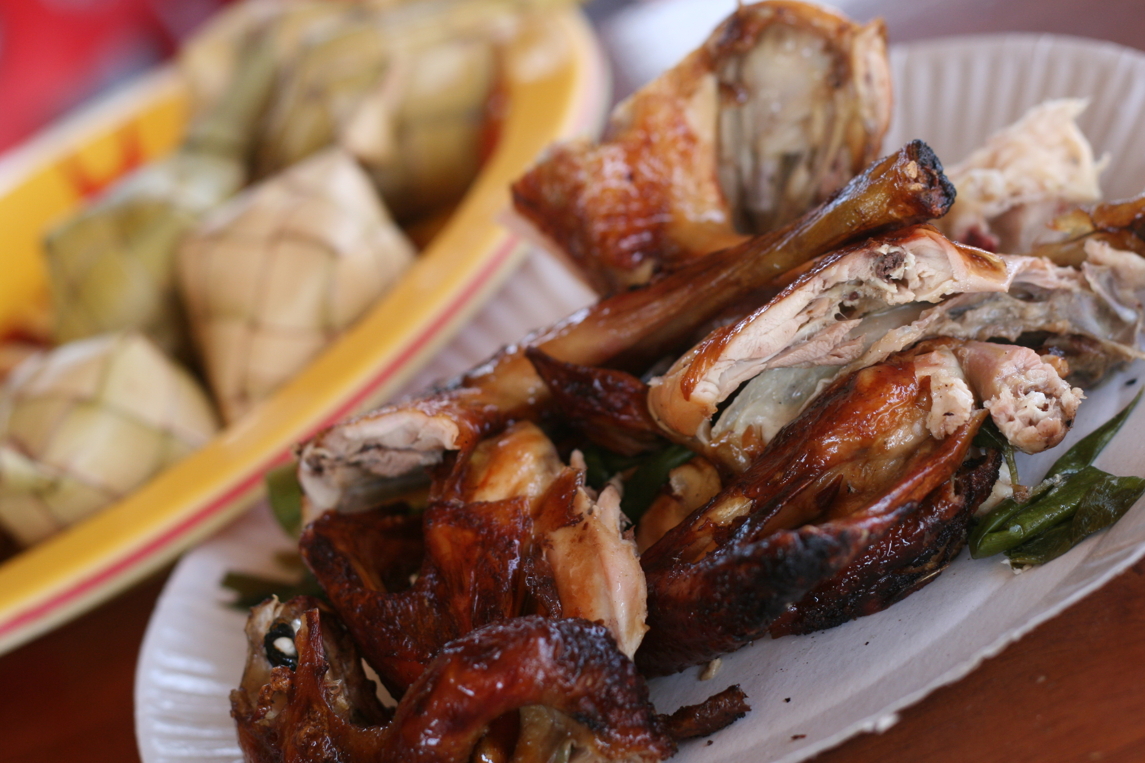 Conching's Native Lechon Manok